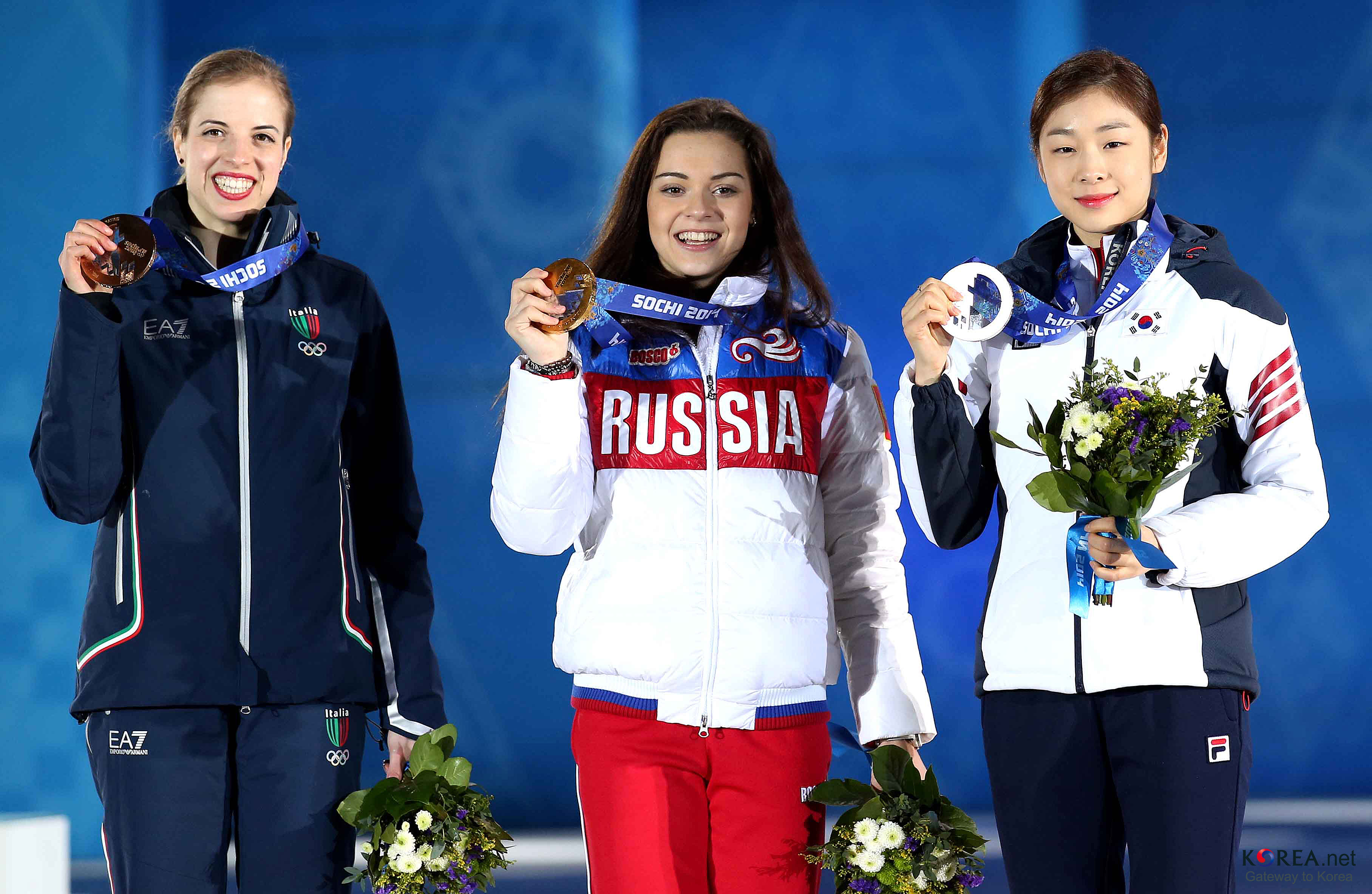 2014 Winter Olympic Games Ladies Figure Skating Medal Ceremony - Carolina Kostner (bronze), Adelina Sotnikova (gold), Kim Yuna (silver) February 21, 2014 Medal Plaza, Sochi, Russia Photo: The Korean Olympic Committee Related Articles -English- Farewell to the queen: Kim gives it her all in her final performance ‘Figure Skating Queen’ Kim Yuna aims at second Olympics gold 'Enjoy your time in Sochi': President Olympics team heads to Sochi -Deutsch- Die „Königin des Eiskunstlaufs” Kim Yuna kämpft um ihr zweites olympisches Gold Abschied für die Königin: Kim gibt in ihrer letzten Performance ihr Bestes -中文- 花滑女王金妍儿自由滑比赛值得期待 -日本語- キム・ヨナ、最後の舞台ですべて出し切る 「フィギュアクイーン」キム・ヨナ、あとはフリーだけ 김연아, 2014 소치 동계올림픽 여자 피겨 스케이팅 시상식 2014-02-21 러시아, 소치. 메달플라자 사진: 대한체육회 코리아넷 기사 김연아, 마지막 무대에서 모든 것을 보여주다 ‘피겨 여왕’ 김연아 프리(Free)만 남았다